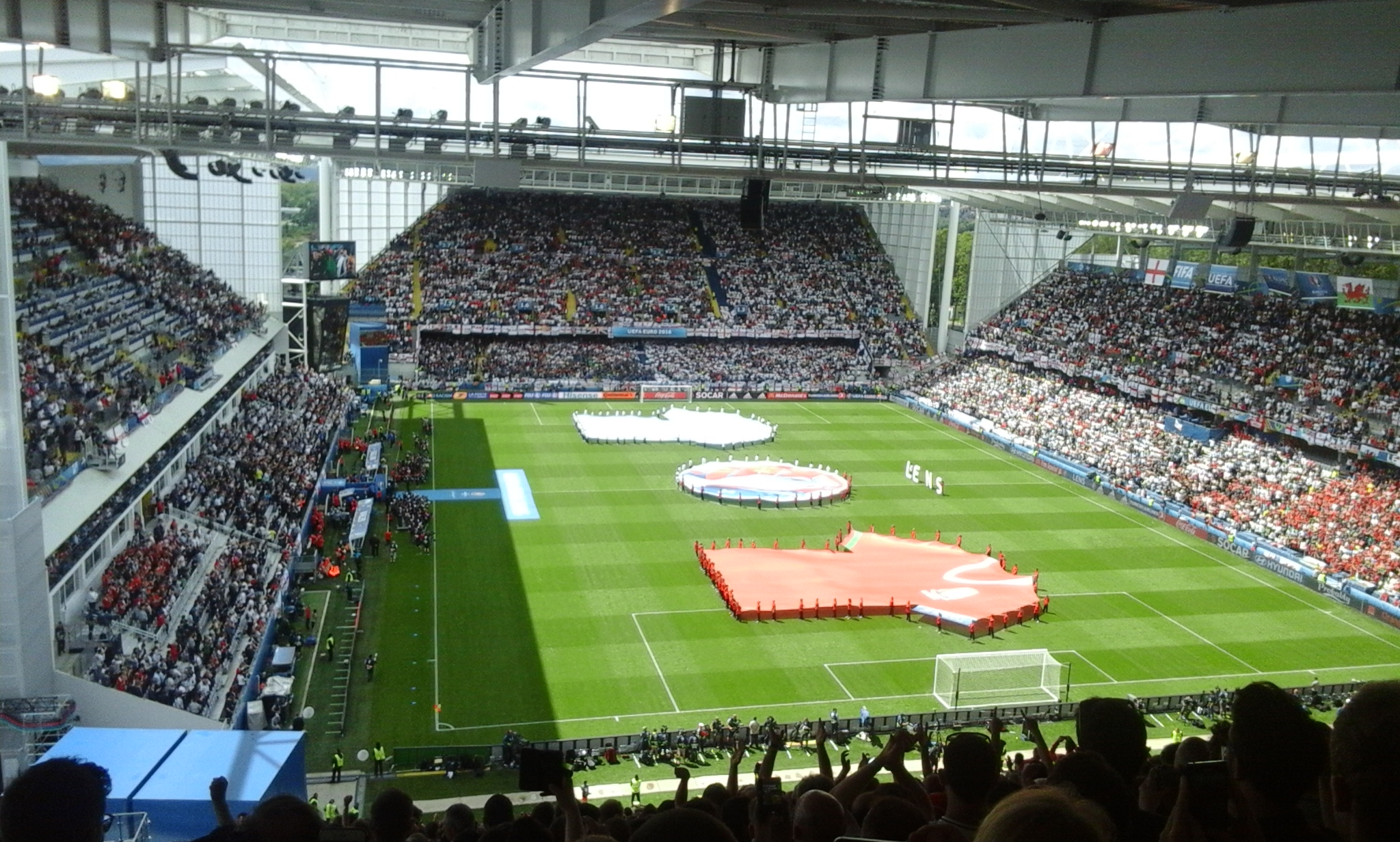 England vs Wales pre-game ceremony (Euro 2016, Bollaert stadium, Lens)